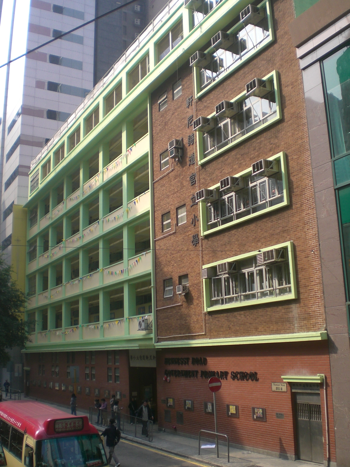 譚臣道, Hennessy Road Government Primary School, Thomson Road, Wan Chai, Hong Kong.